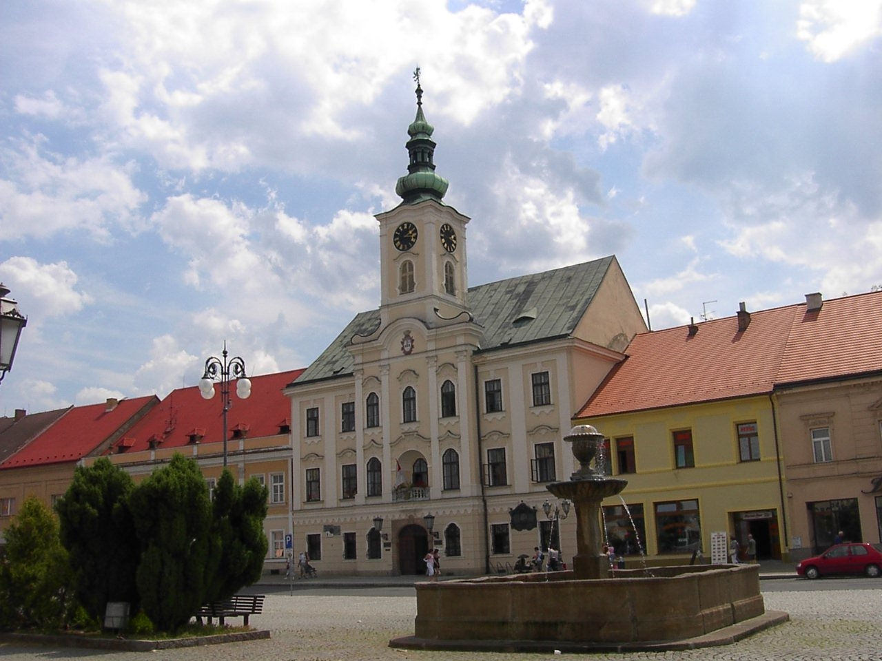 Townhall of Rokycany.